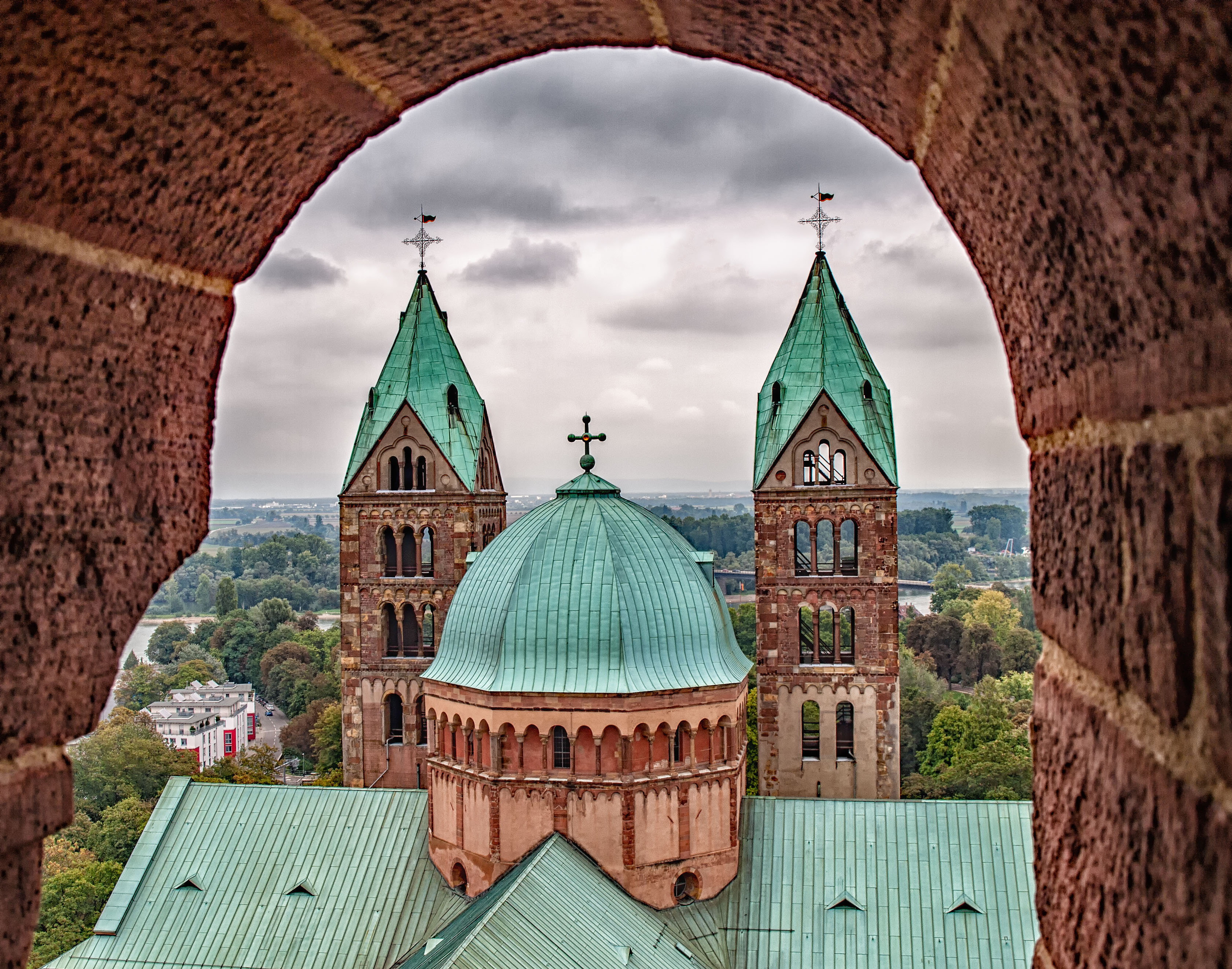 Speyer Cathedral - Look from the south west tower to the crossing dome and the east towers